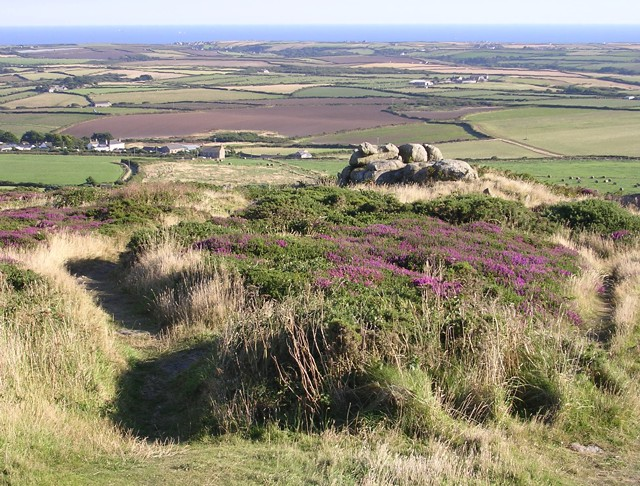 View south from Carn Brea beacon, West Penwith. This is a view south from the northern edge of the grid square - the buildings in the middle of the photo form the settlement of Treave, with Porthcurno in the far distance. From the summit of Carn Brea about than three-quarters of the horizon is uninterrupted sea - it really does feel like the 'first and last hill'. Technical note: this image was adjusted to compensate for a horizon-tilt of 1.2 degrees.